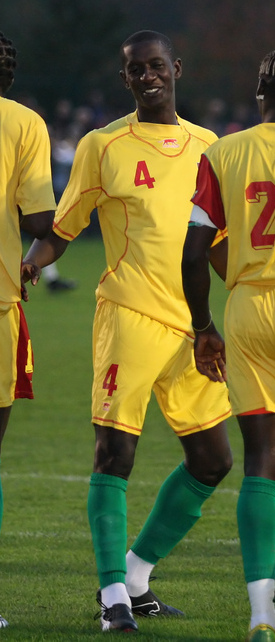 Mohammed Sylla, Guinean football player, during Guinean national team friendly match against the Stade Rennais youth team.